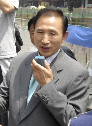 Lee Myung-bak, cropped image of Seoul-Lee Myung Bak.jpg